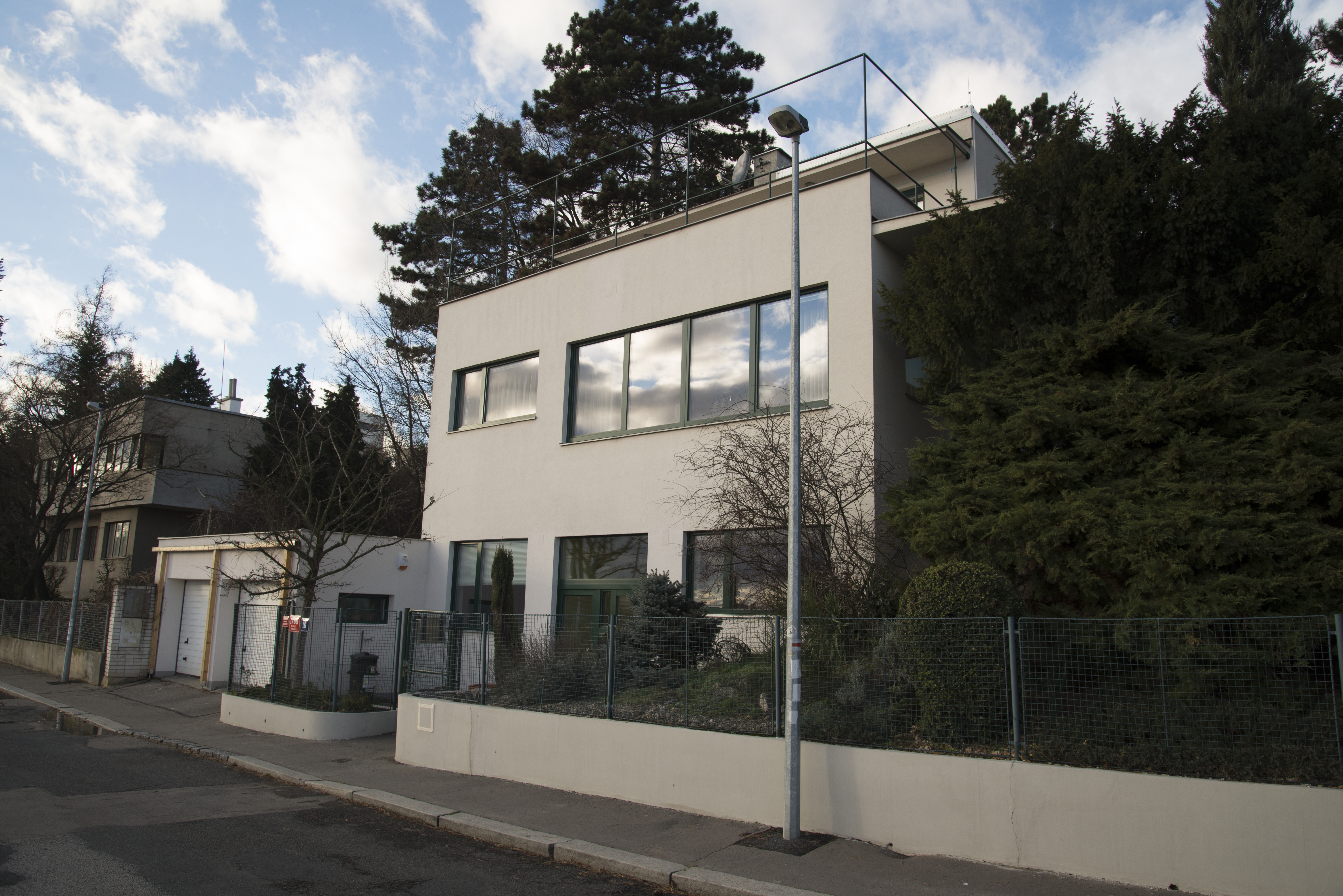 Osada Baba (Baba Functionalism colony in Prague) - House Janák